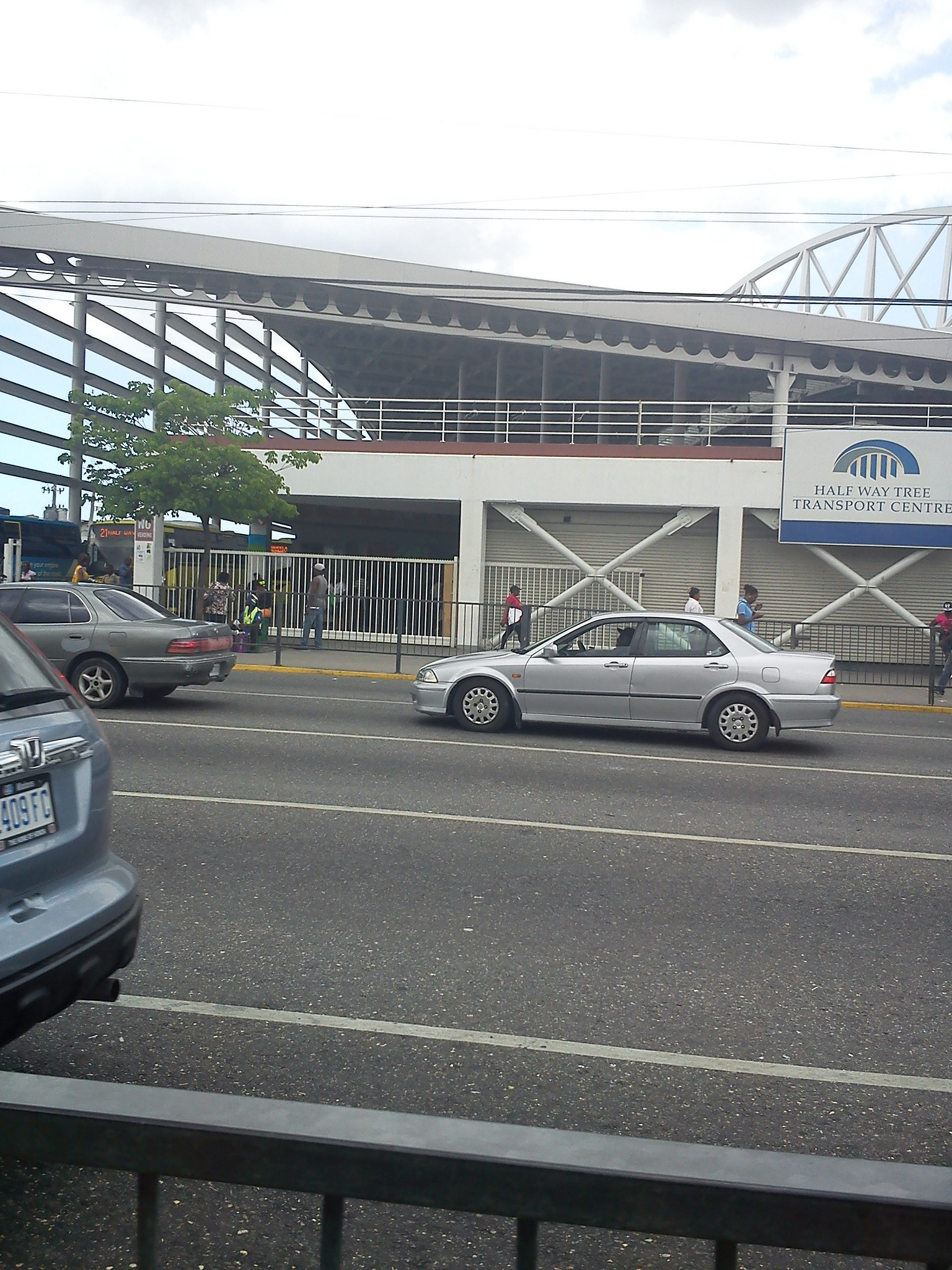 Halfway Tree Transport Center, Kingston, Jamaica